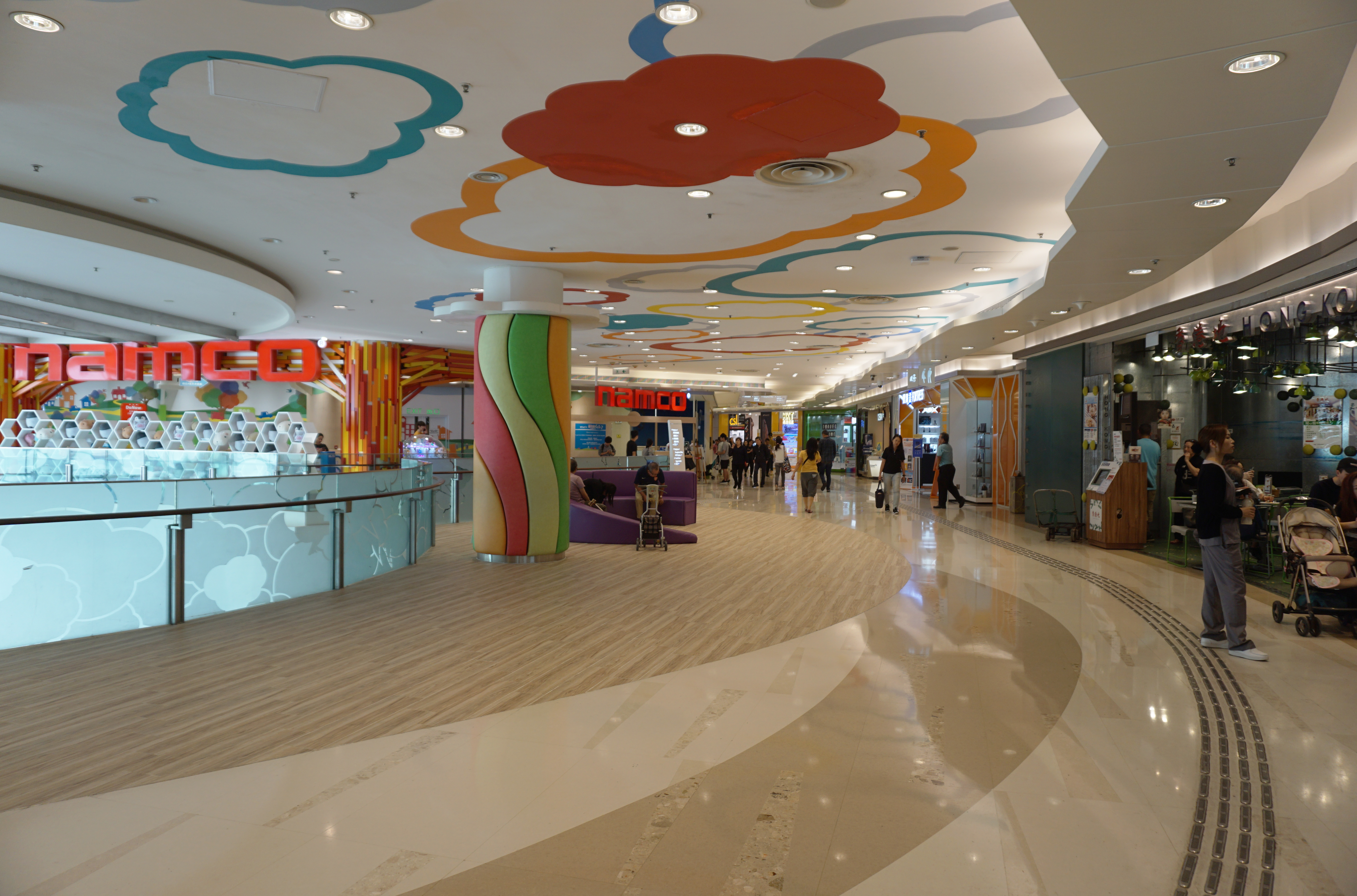 PopCorn 2 in Tseung Kwan O, Hong Kong.